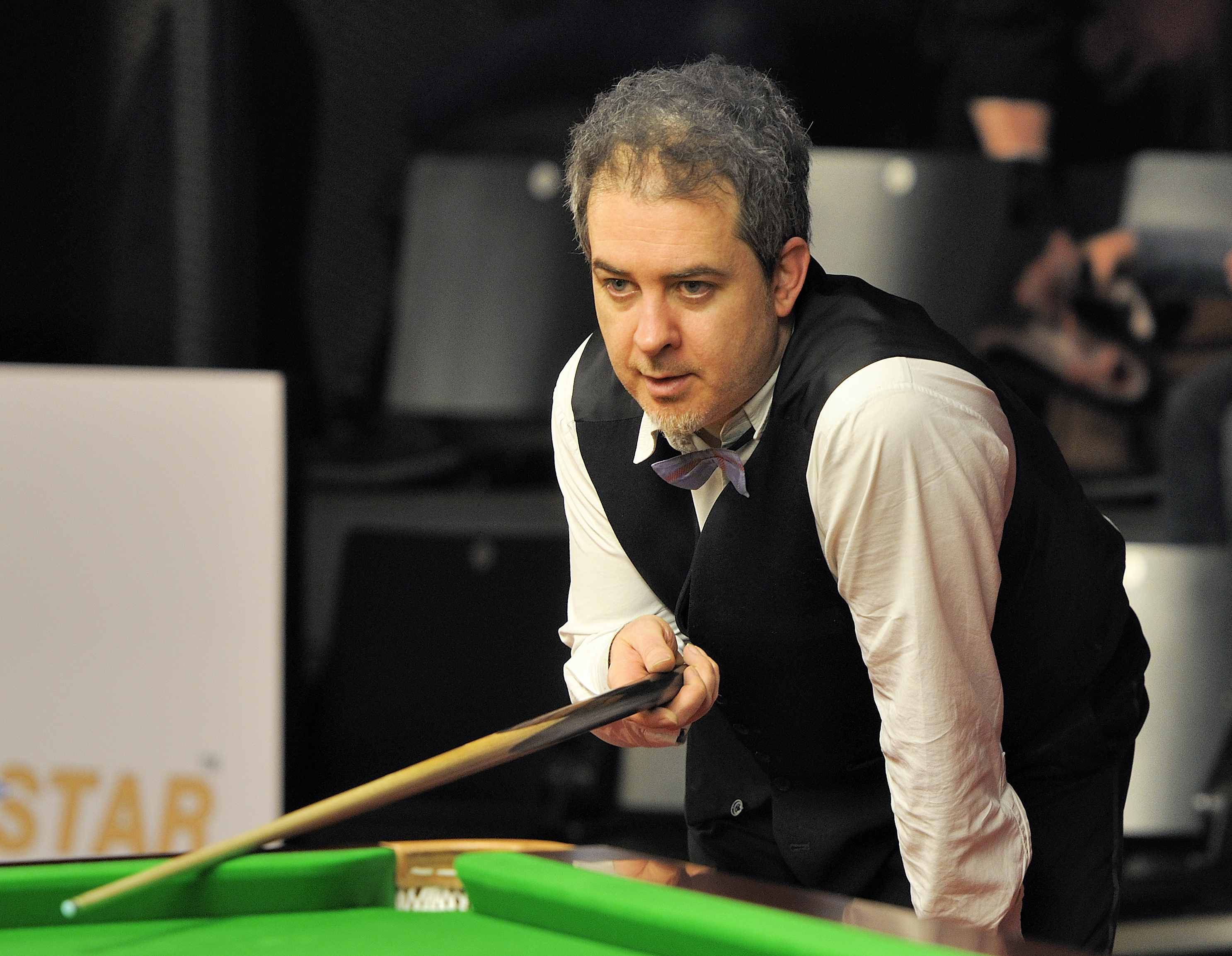 Picture taken in Berlin during the Snooker German Masters in 2014. Anthony Hamilton.